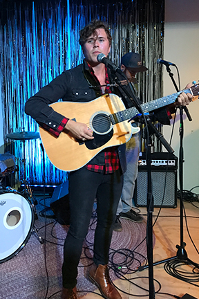 Christian Lopez performing at the Razor & Tie Publishing showcase during Americana Music Fest on September 12, 2017